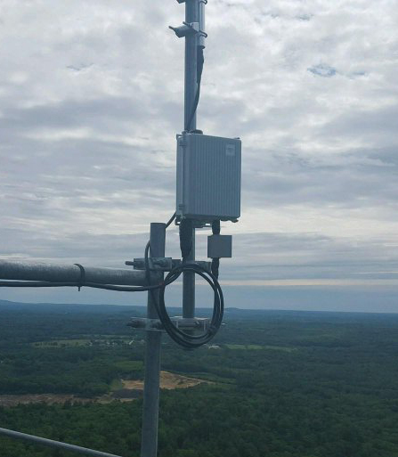 Installed Senet Hardware in New Hampshire